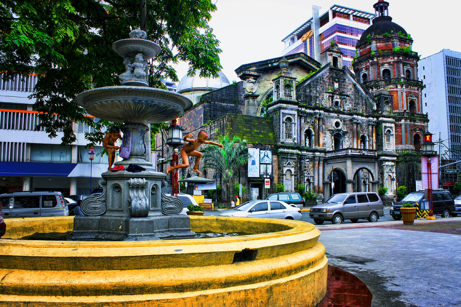 is located in the District of Binondo, Manila, in the Philippines. This church was founded by Dominican priests in 1596[1] to serve their Chinese converts to Christianity.[2] The original building was destroyed in 1762 by British bombardment. A new granite church was completed on the same site in 1852 however it was greatly damaged during the Second World War, with only the western facade and the octagonal bell tower surviving.